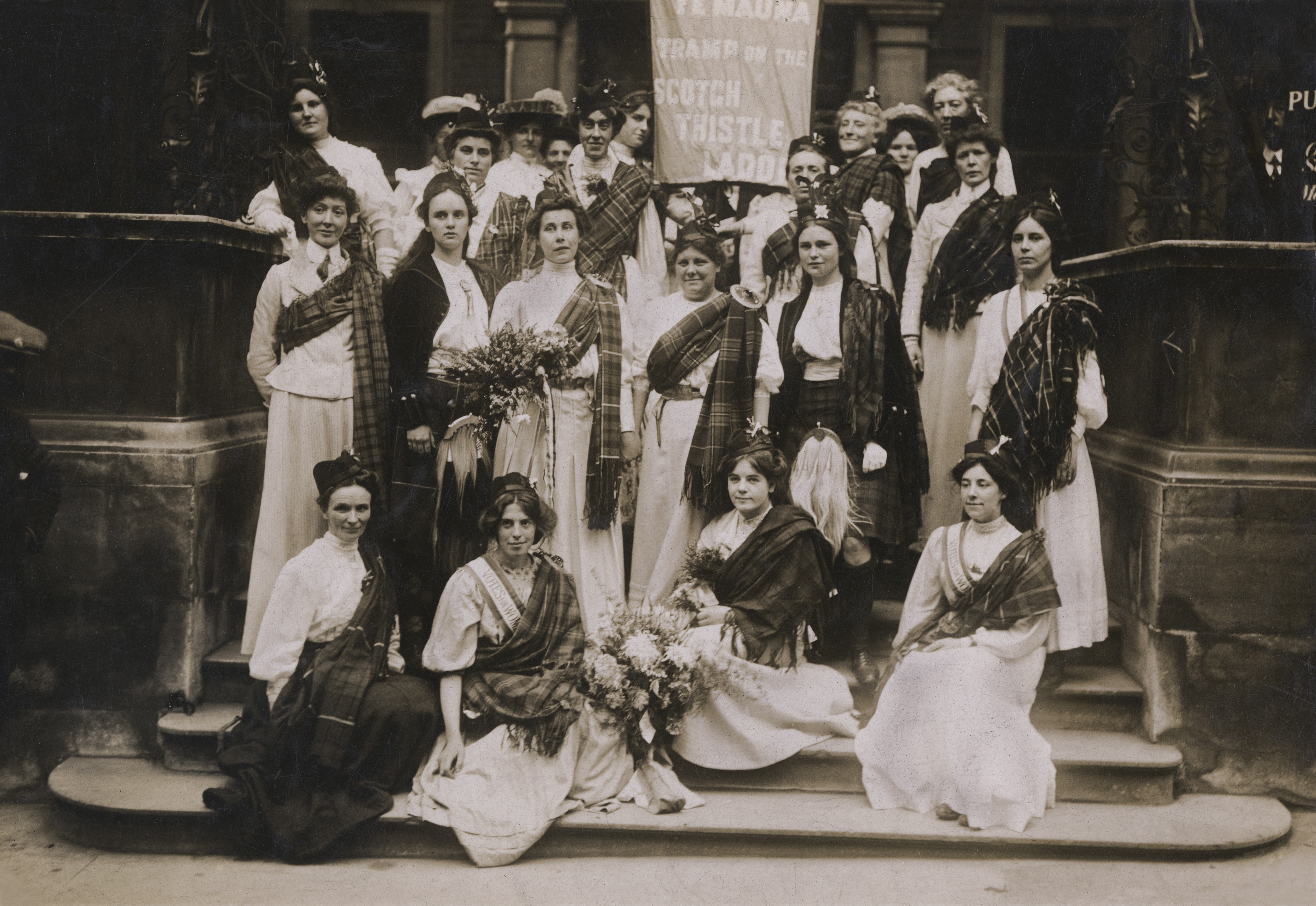 7JCC/O/02/023Photograph, printed, paper, monochrome, a group of suffragettes posing on the steps of a building all wearing tartan sashes, Flora Drummond in the middle, a banner reading 'YE MAUNA TRAMP ON THE SCOTCH THISTLE LADDIE'; printed inscription on reverse 'Copyright: World's Graphic Press Limited, 36-38 Whitefriars Street, Fleet Street, London EC. Please Acknowledge'. [The occasion was a welcome for Mary Phillips, a Scot, on her release from prison]